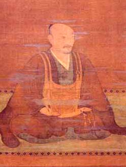 A portrait of Asakura 'Eirin' Takakage.